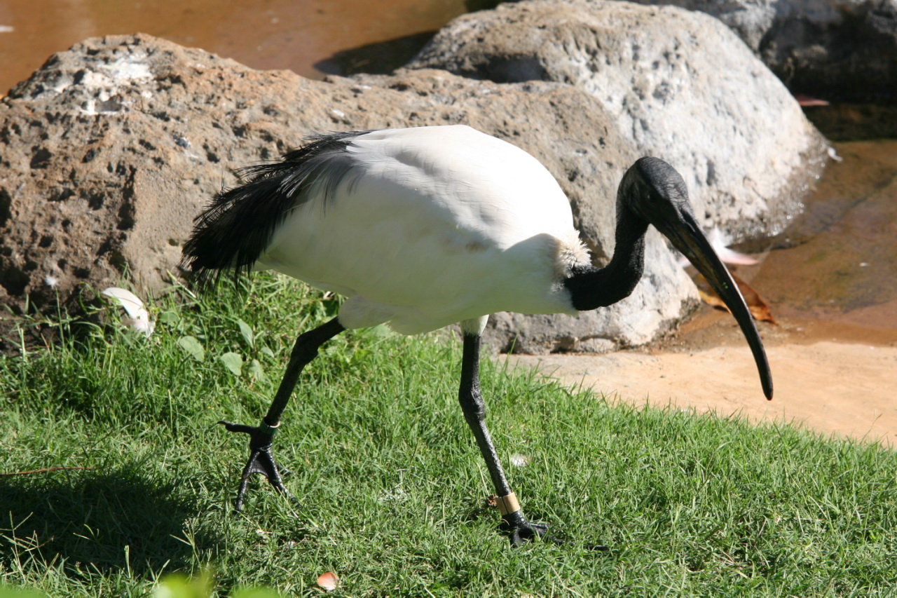 Threskiornis aethiopicus, Honolulu Zoo.